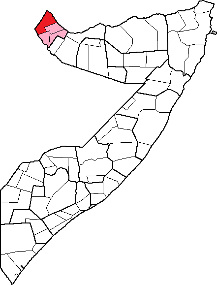 Location of the Zeylac (Zeila) district in the Awdal region, Somalia. Boundaries reflect those endorsed by the Republic of Somalia in 1986.